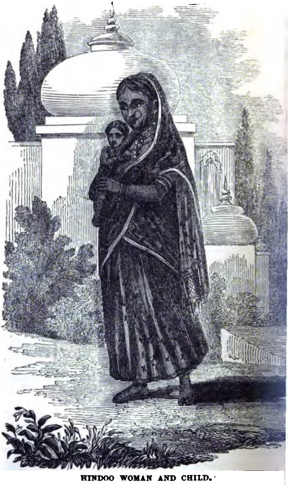 Hindoo Woman and Child (March 1852, p.24, IX)